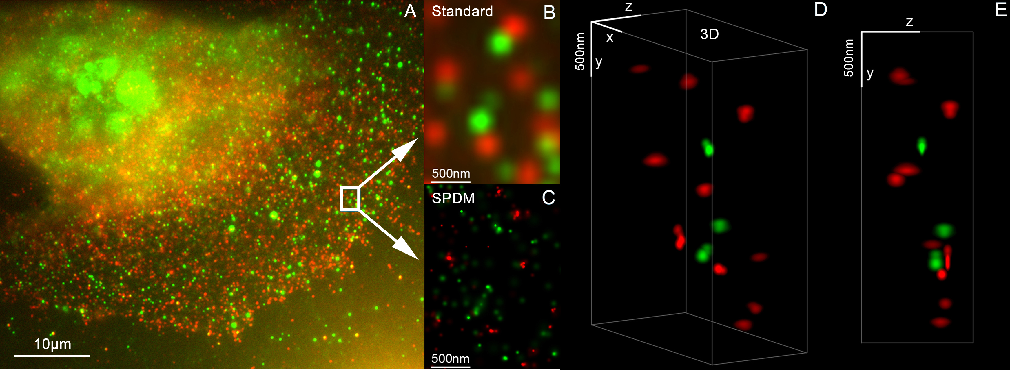 3D Dual Color Super Resolution Microscopy by combining localization microscopy SPDM with spatially modulated illumination SMI / Optical nanoscopy 3D reconstruction of dual color acquistion of Her2/neu and Her 3. A) conventional wide-field fluorescence image of an AG11132 mammary epithelial cells. Her3 is labelled with Alexa488 (green) and Her2/neu with Alexa568 (red). B) magnified image of a small area of A. C) localization microscopy SPDM of the same region of interest as in B. D) and E) show a 3D reconstruction of the protein clusters using the combination of SPDM and SMI microscopy (LIMON technology). Scale bars in D) and E) are 500 nm in each direction. By combining SPDMphymod with SMI (both invented in Christoph Cremer´s lab in 1996) a 3D dual colour reconstruction of the spatial arrangements of Her2/neu and Her3 clusters was achieved. The positions in all three directions of the protein clusters could be determined with an accuracy of about 25 nm. Her2/neu and Her3 are tyrosine kinase receptors and their overexpression is related to certain types breast cancer. The paper analyses the Her2 distribution pattern in breast cancer cells and counts the clusters (20 637 clusters with a mean diameter of 67 nm) with a specifically developed clusters finding algorithm for super resolution microscopy. This methods could help for the exploration of the resistance mechanism in Trastuzumab/Herceptin treatment. Publication: Rainer Kaufmann, Patrick Müller, Georg Hildenbrand, Michael Hausmann & Christoph Cremer: Analysis of Her2/neu membrane protein clusters in different types of breast cancer cells using localization microscopy, Journal of Microscopy 2010